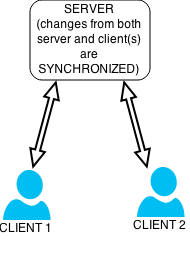 Data Synchronization: Changes from both SERVER and CLIENT(s) are Synchronized.